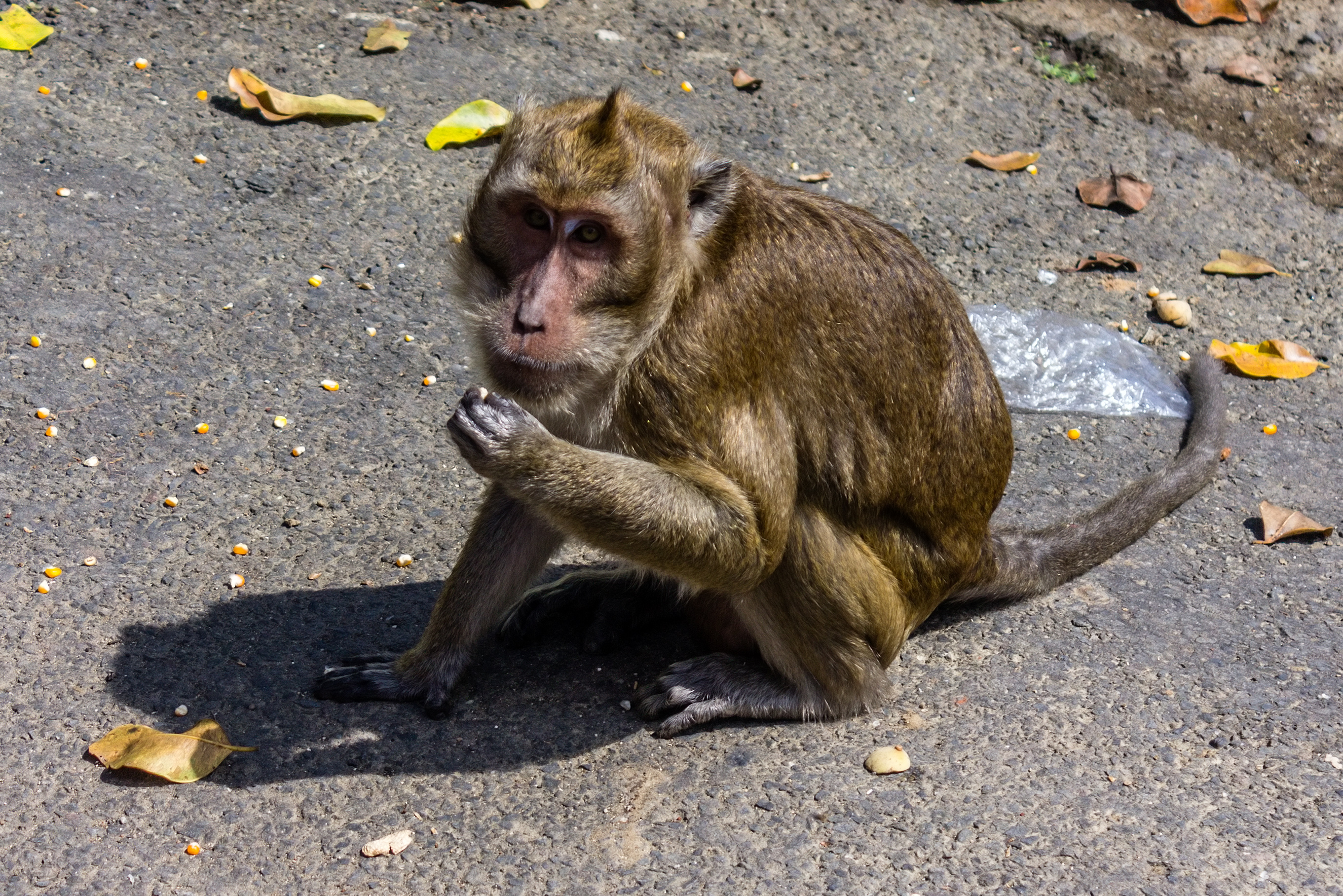 Unidentified macaque, Saka Tunggal Mosque, Purwokerto 2015-03-22